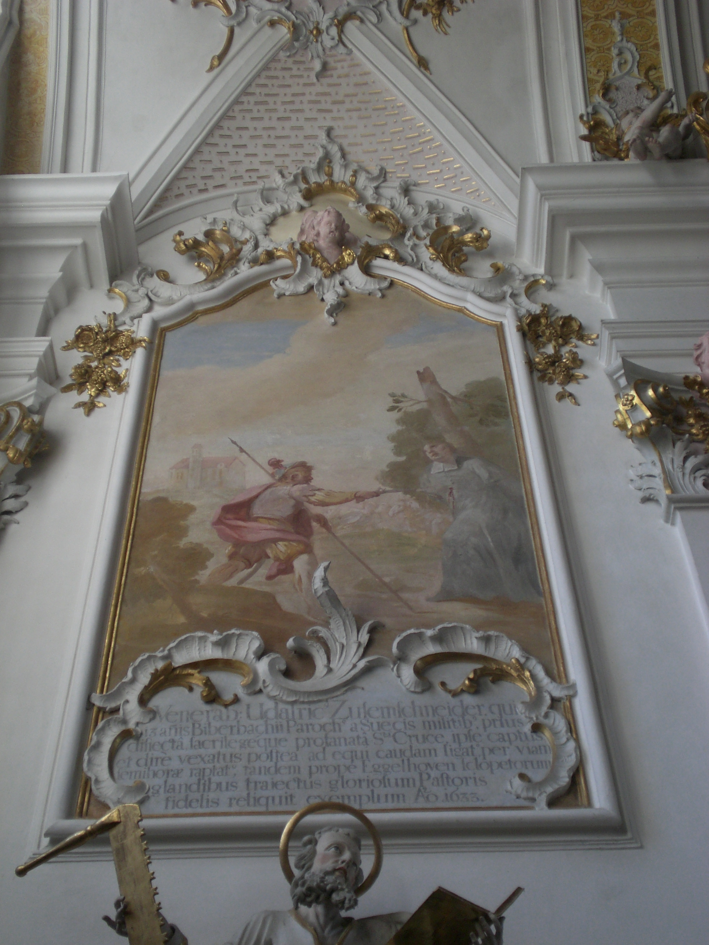 Assassination of Ulrich Zusemschneider 1632/33